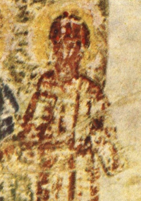 Miniature 69 from the Constantine Manasses Chronicle, 14 century: Tsar Ivan Alexander with his sons Ivan Sracimir, Ivan Shishman and late Ivan Asen